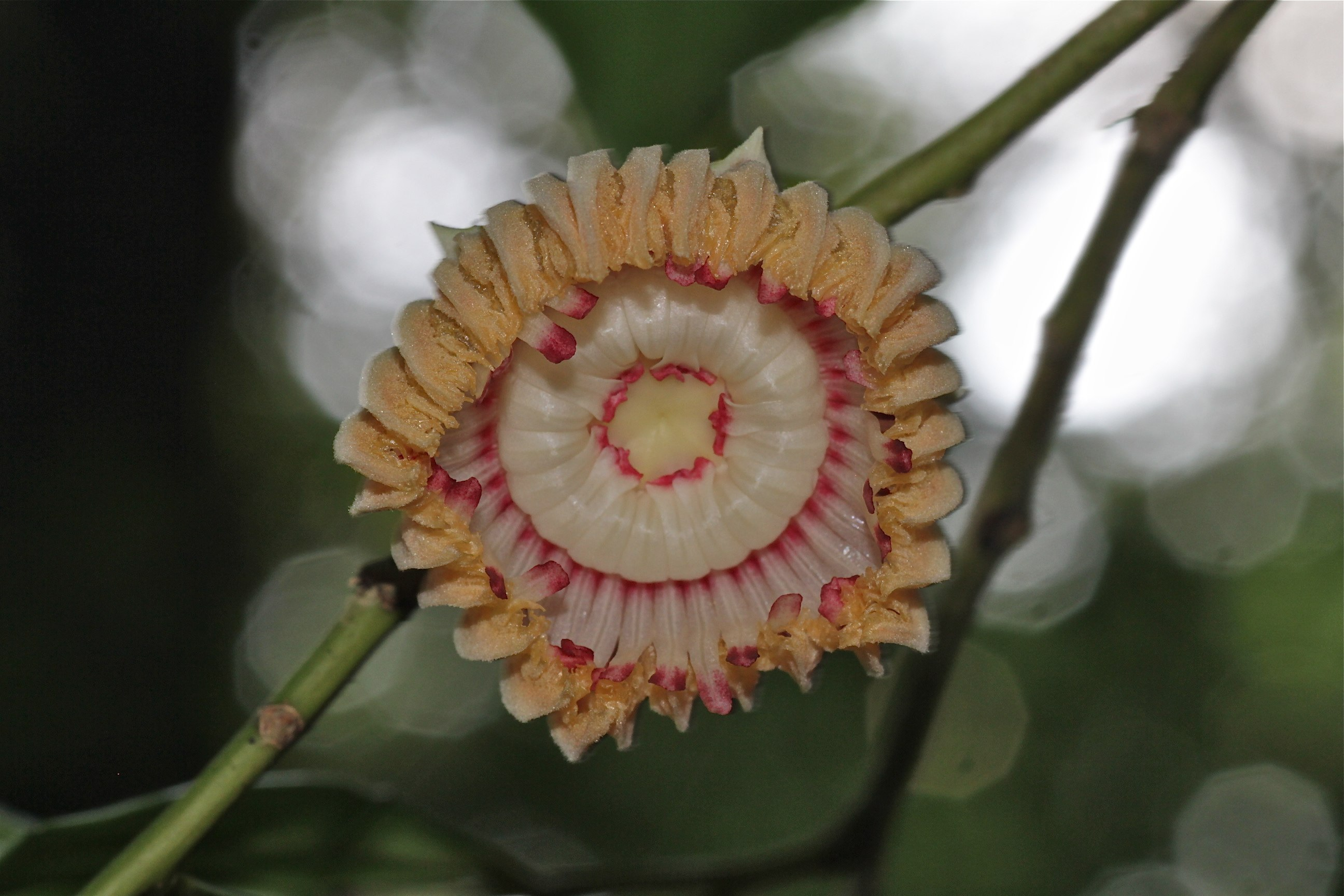 Taï National Park, Ivory Coast